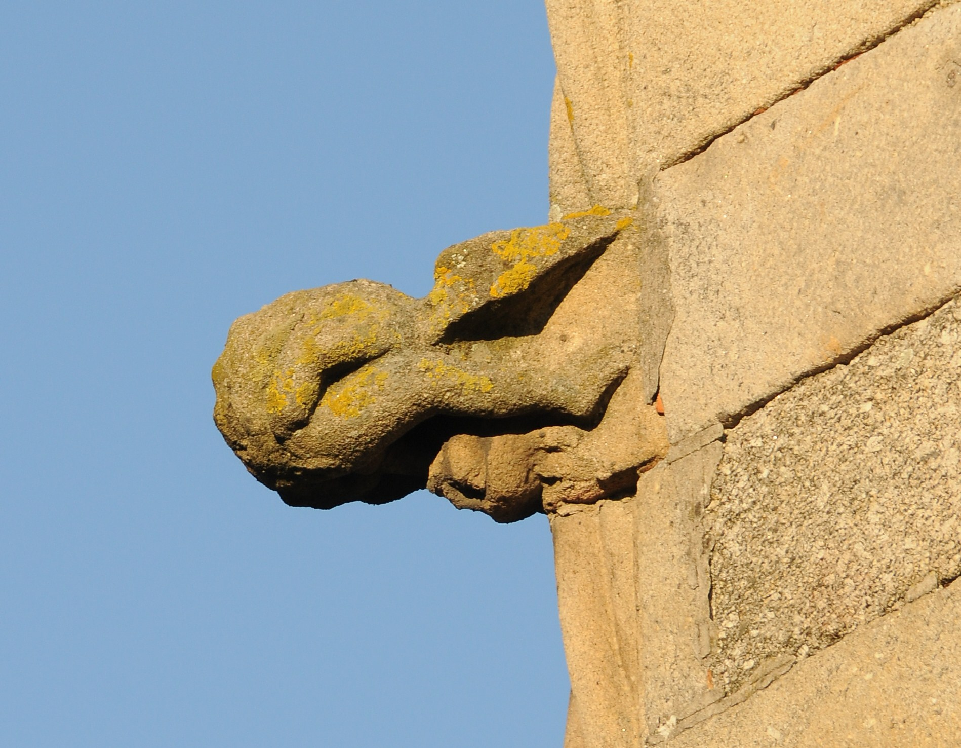 Gargoyle in Exterior of Igreja de Nossa Senhora da Oliveira, Guimarães, Portugal